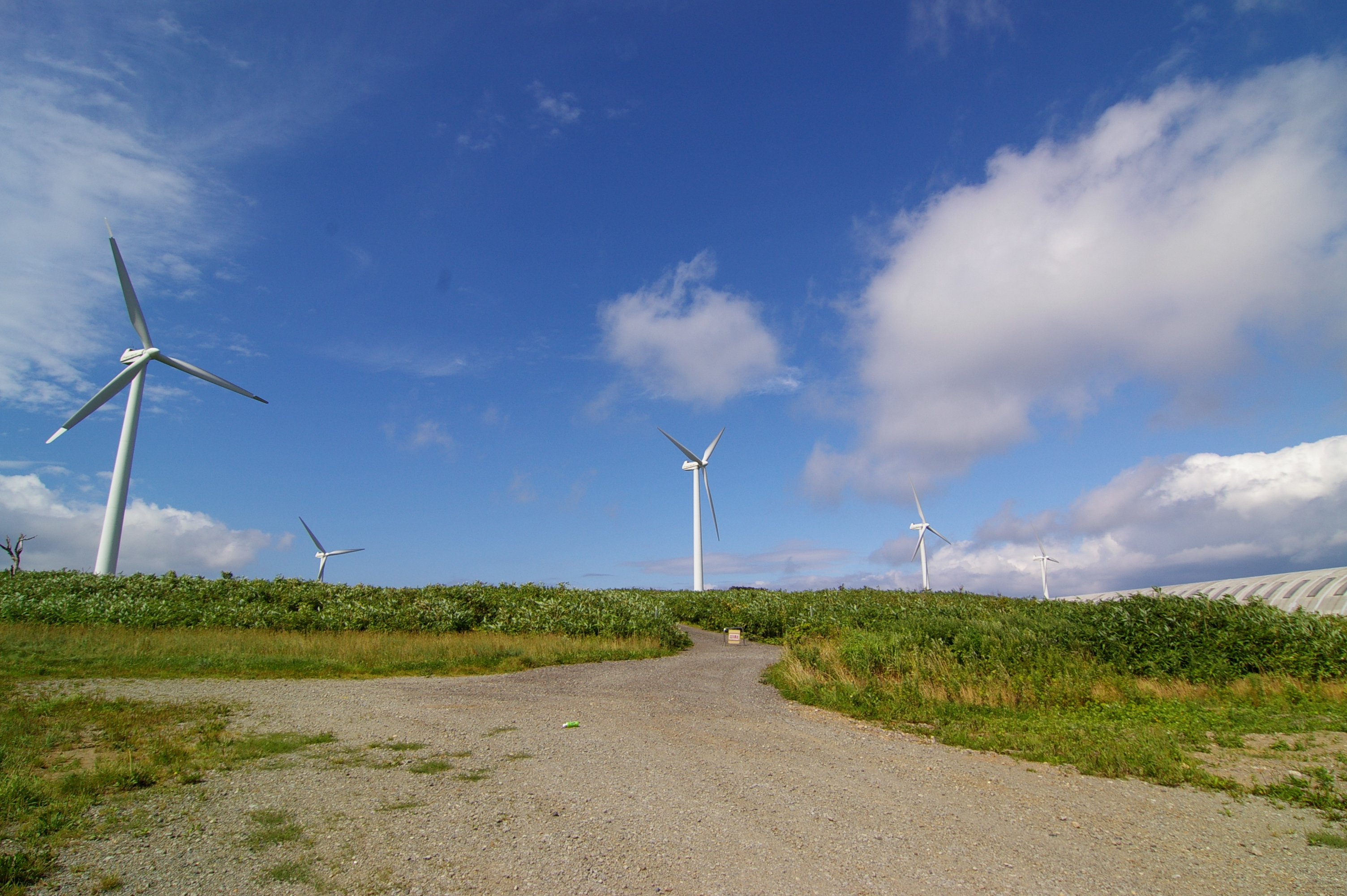 Shimamaki Wind Farm, Shimamaki, Hokkaido. Wind power plant operated by the Electric Power Development Company